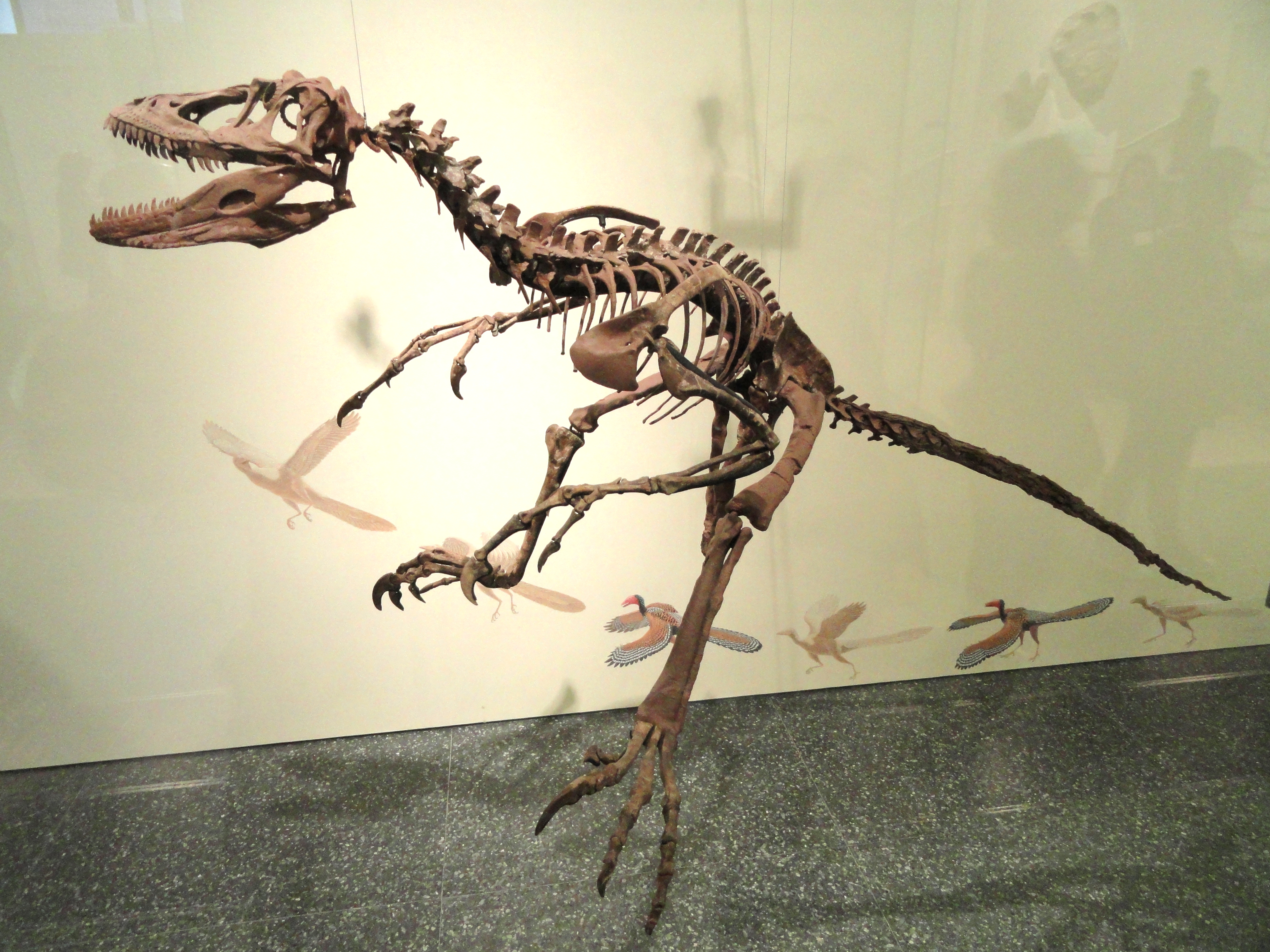 Deinonychus specimen AMNH 3015. Exhibit in the fossil collection of the American Museum of Natural History, Manhattan, New York City, New York, USA.